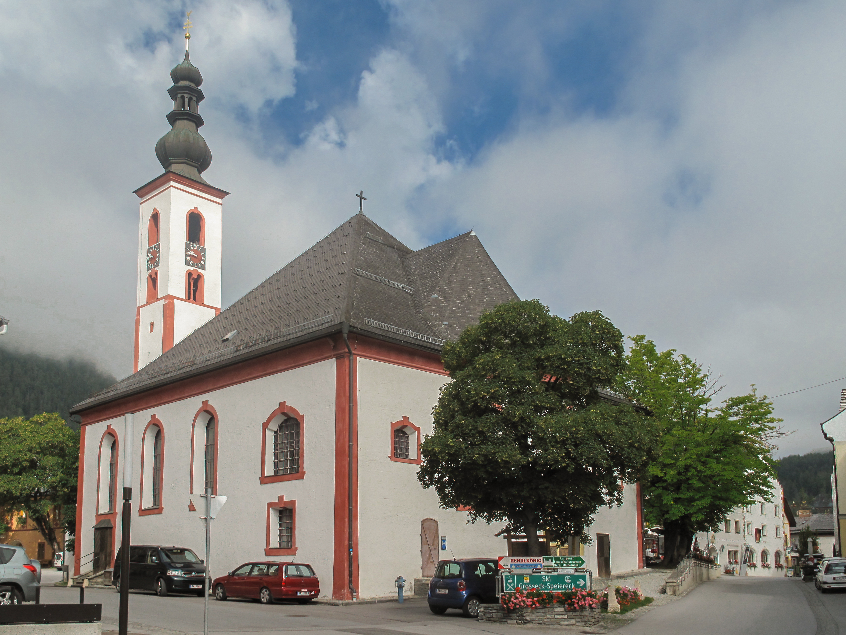 Mauterndorf, church